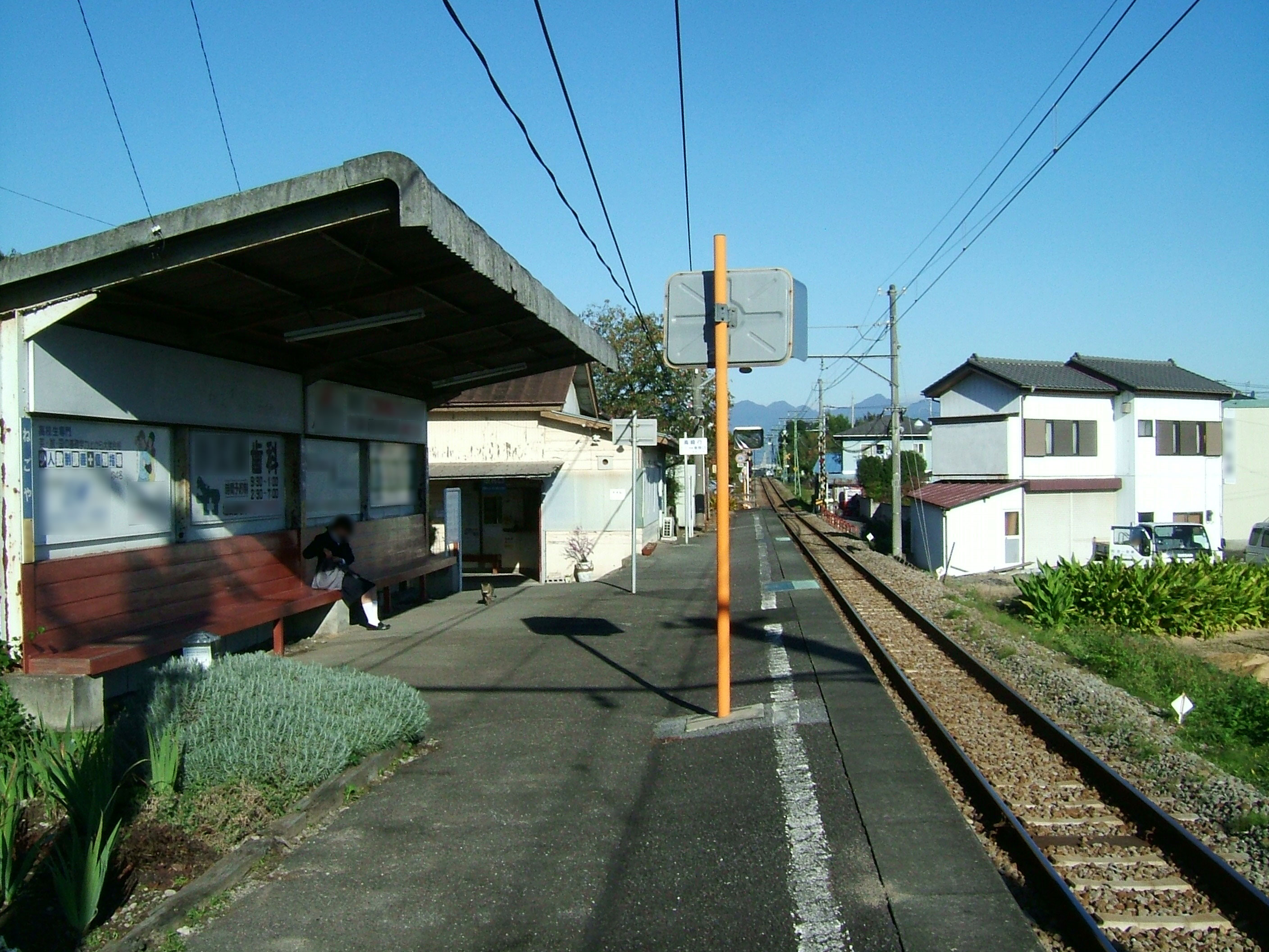 The platform at Negoya Station on the Jōshin Dentetsu Jōshin Line in Takasaki city, Gumma prefecture, Japan